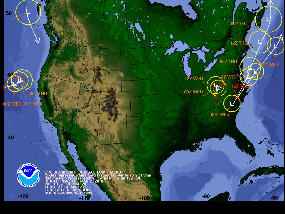 Map provided by the Weather Prediction Center indicating the formation of the fourth nor'easter to strike the Northeastern U.S in the month of March.